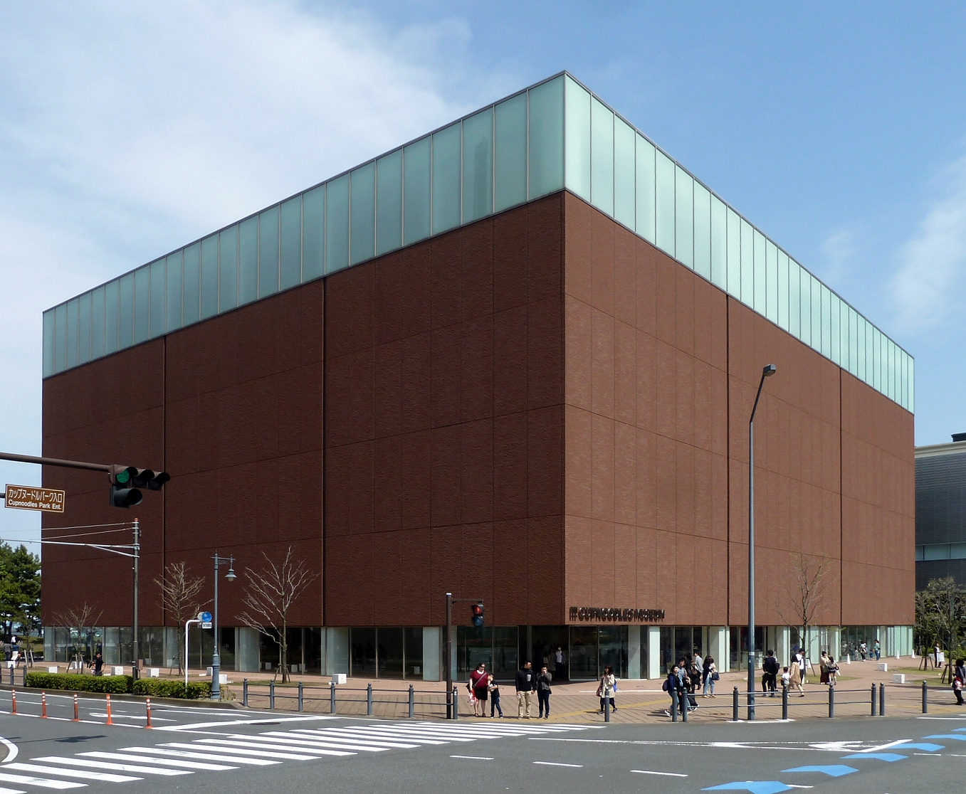 CUPNOODLES MUSEUM (Momofuku Ando Instant Ramen Museum) in Yokohama, 2017, front view